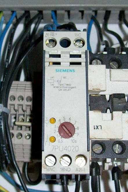 time delay relay